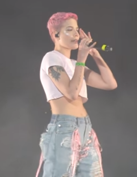 HALSEY w/ ZEDD - - LIVE @ WELCOME 4 ACLU - 4.3.2017